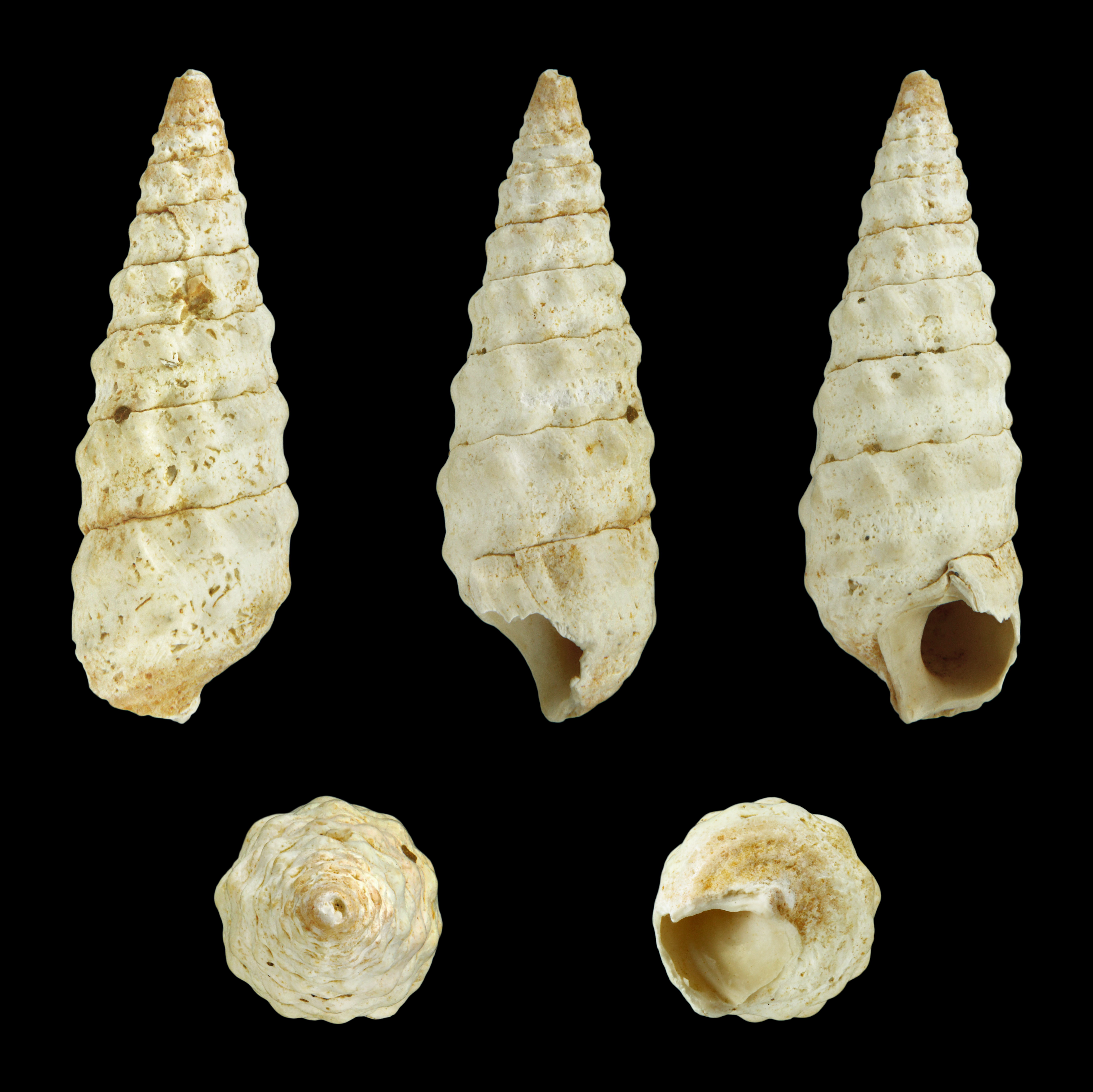 Length 1.6 cm; Badenian, Langhian, Miocene; Szabo sand pit, Varpalota, Western Hungary; Shell of own collection, therefore not geocoded. Dorsal, lateral (right side), ventral, back, and front view.